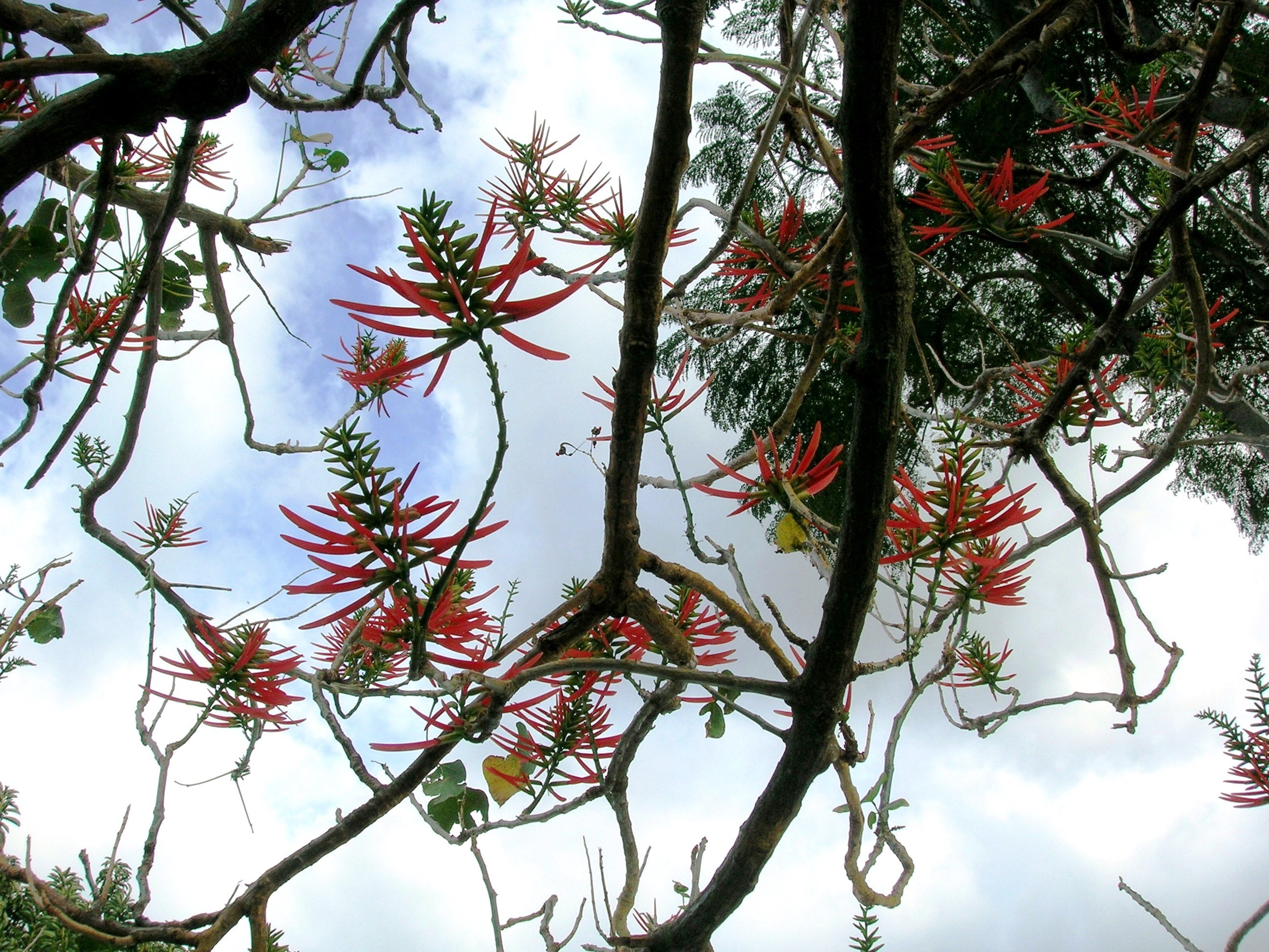 Erythrina berteroana (flowers). Location: Maui, Makawao